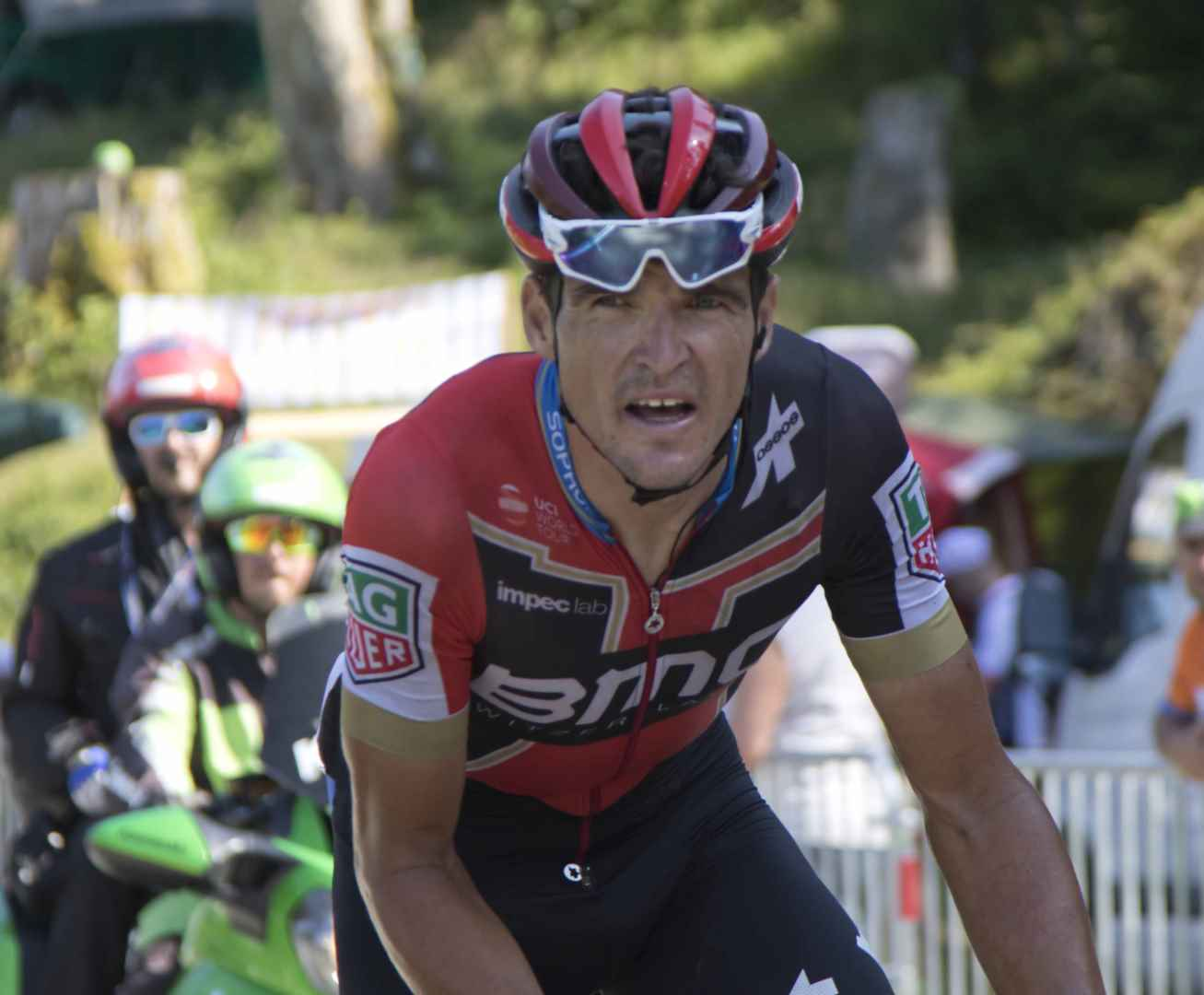 2018 Tour de France